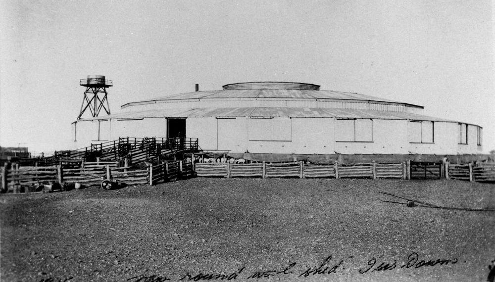 New Round Wool Shed Isis Downs Station 1915